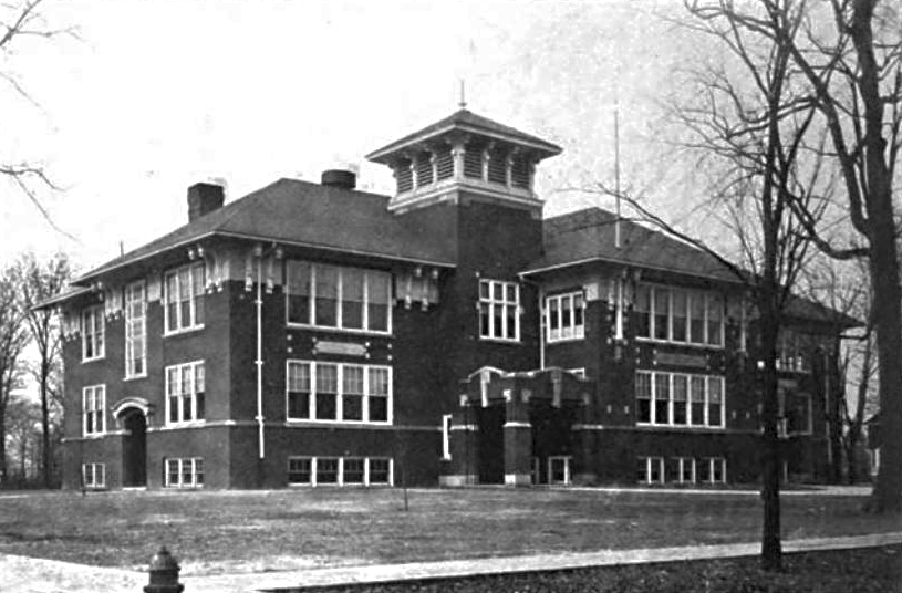 Duane Doty School in 1911 — in Detroit, Michigan (built 1908).